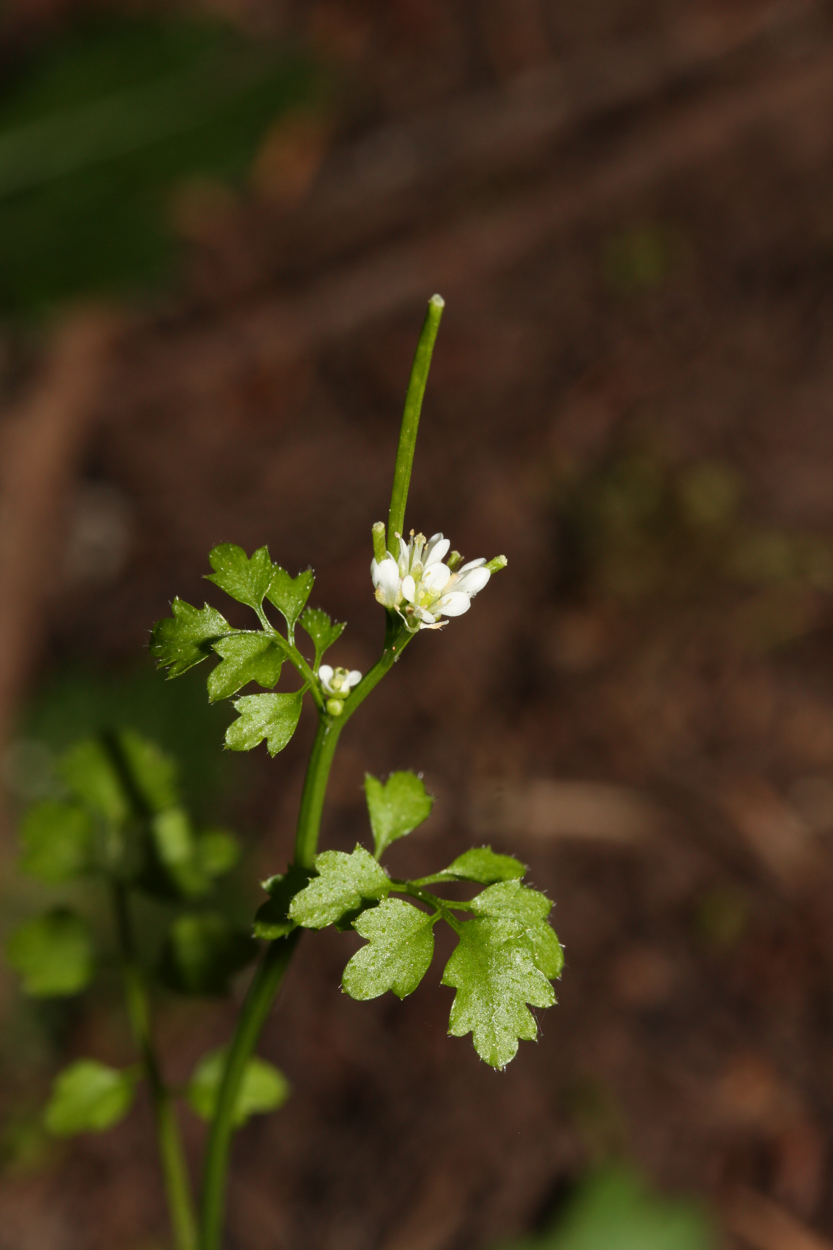 Little Western Bittercress, Siberian Bittercress, Umbellate Bittercress; auth. Nutt.; 6 stamens